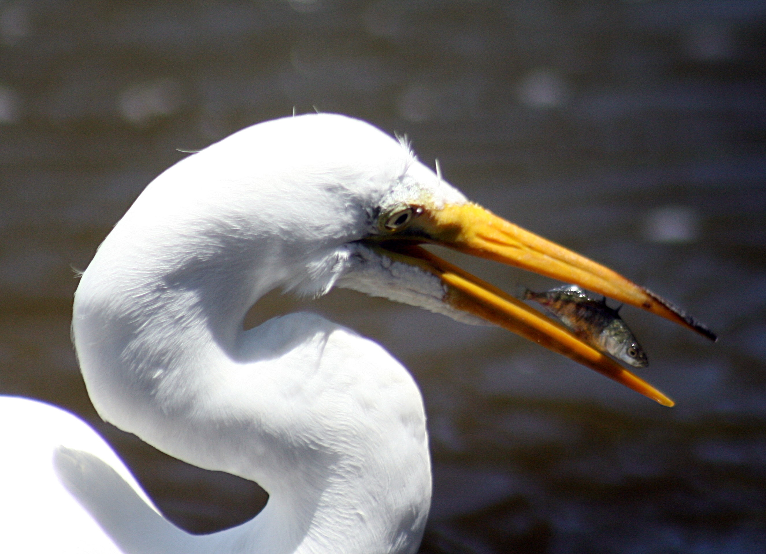 Egret and Fish